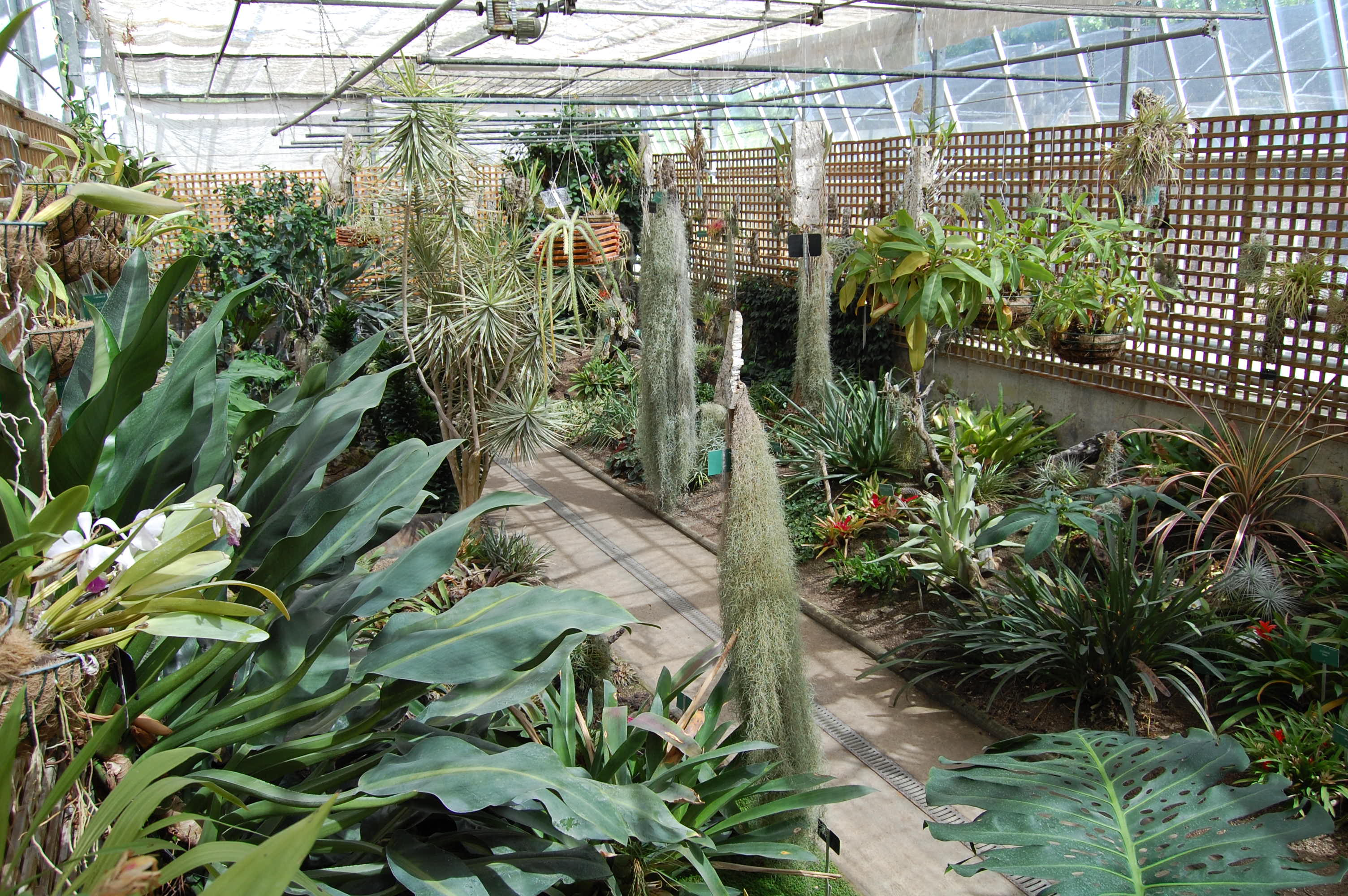 Royal Botanic Gardens, Juan Carlos I, located on the campus of Alcalá de Henares (University of Alcalá). Founded in 1990. Orquidearium.